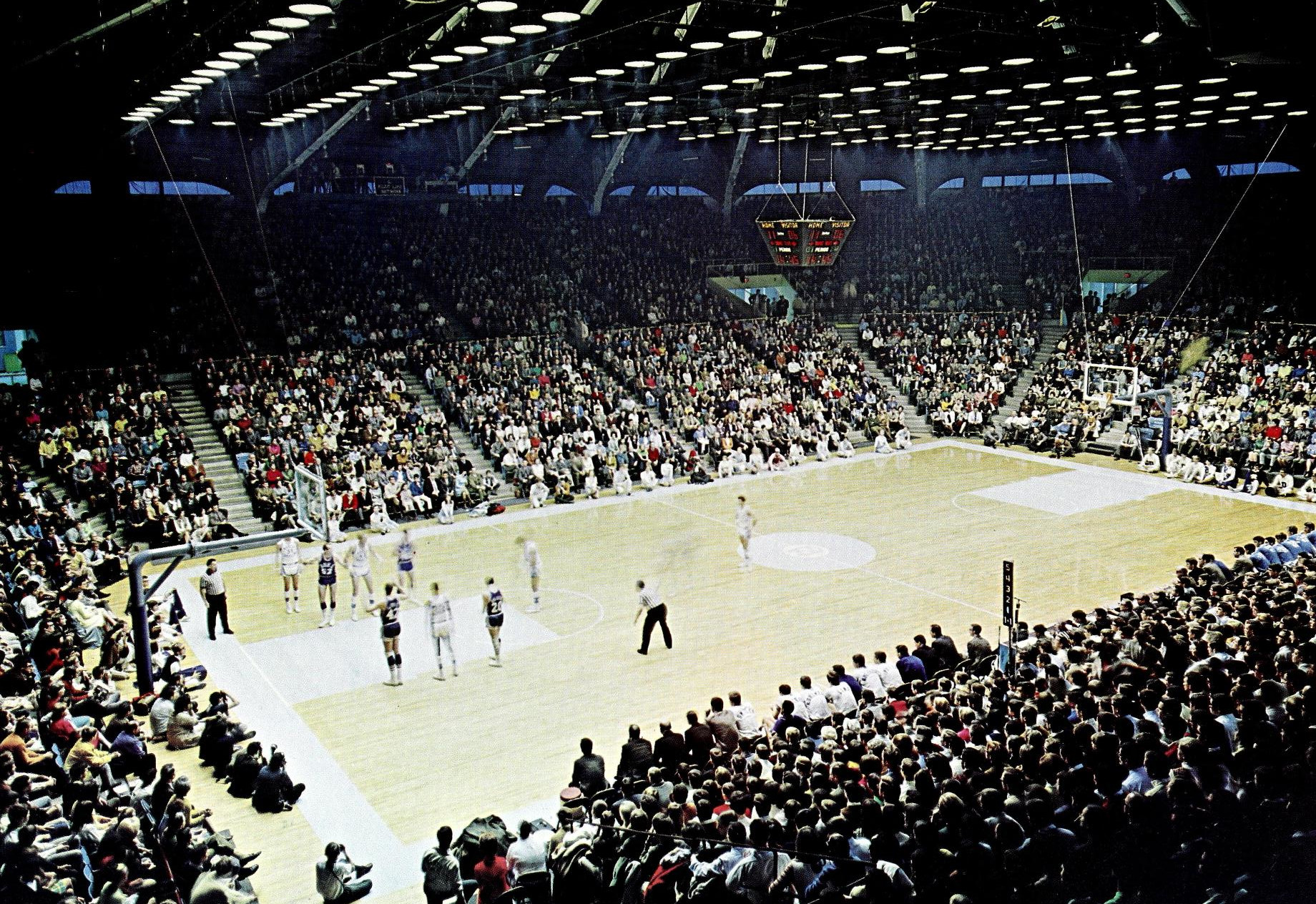 Carmichael Auditorium on the campus of the University of North Carolina, Chapel Hill